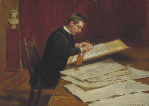 Sir Robert Stodart Lorimer, 1864 - 1929. Architect. Oil on canvas, by John Henry Lorimer (1856-1936), 1886. In the public domain. Source: [1]